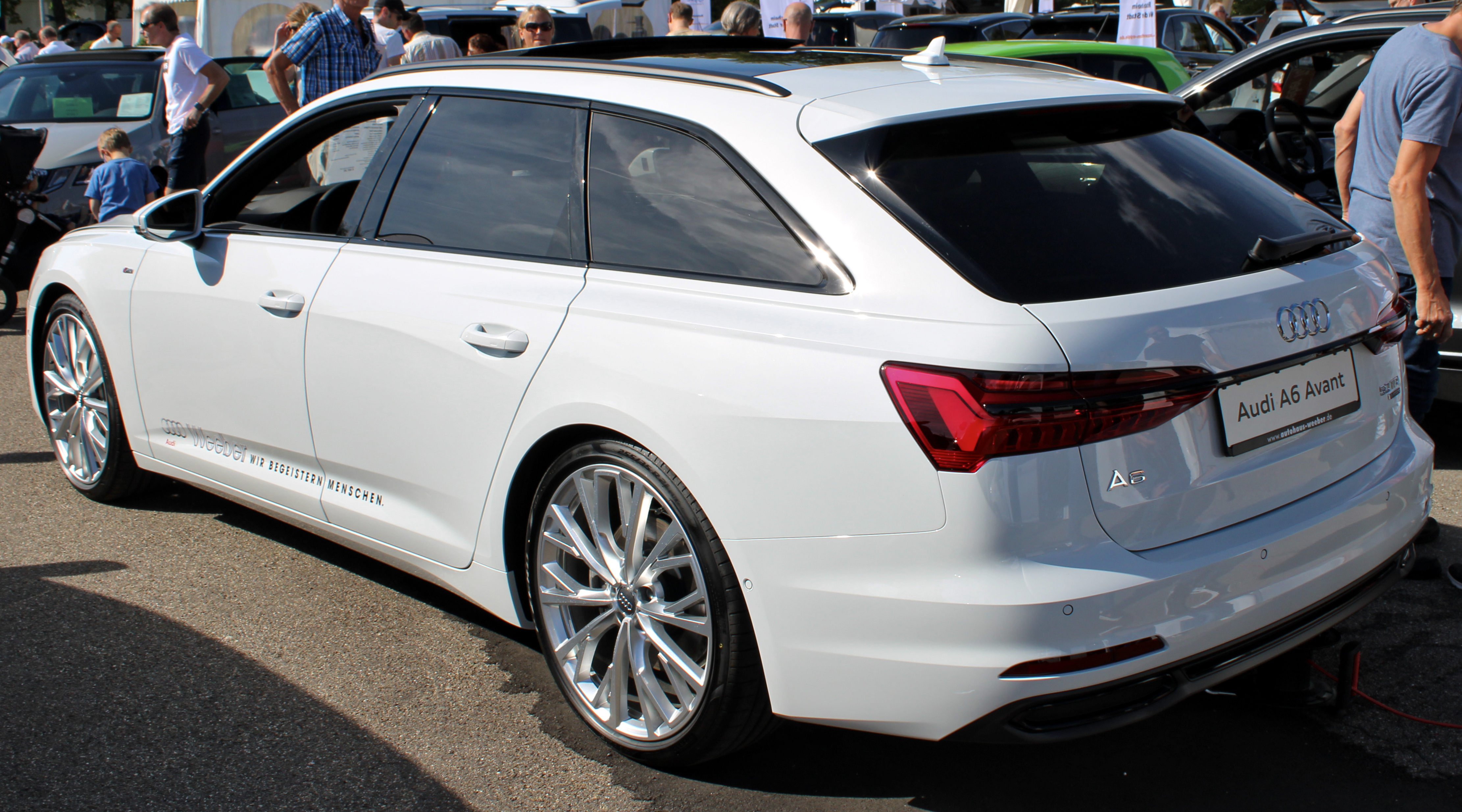 Audi A6 C8 Avant 50 TDI quattro